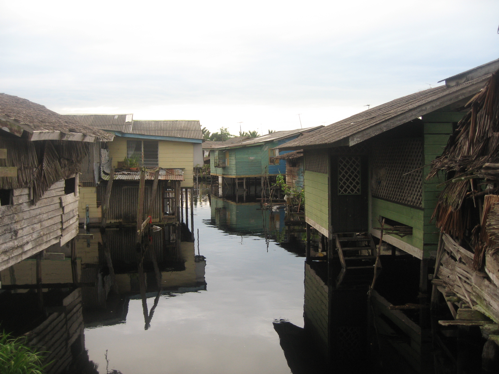 Seasonal flood at Kampung Tian, Matu, Sarawak, Malaysia. Kampung Tian is one of the largest populated villages in Matu District. Plank walk and bridges are built in the village at minimum height of 4 feet. This is to overcome seasonal flood which sometimes rised from 2 feet to 5 feet. According to geographical study, Matu district is below sea level.